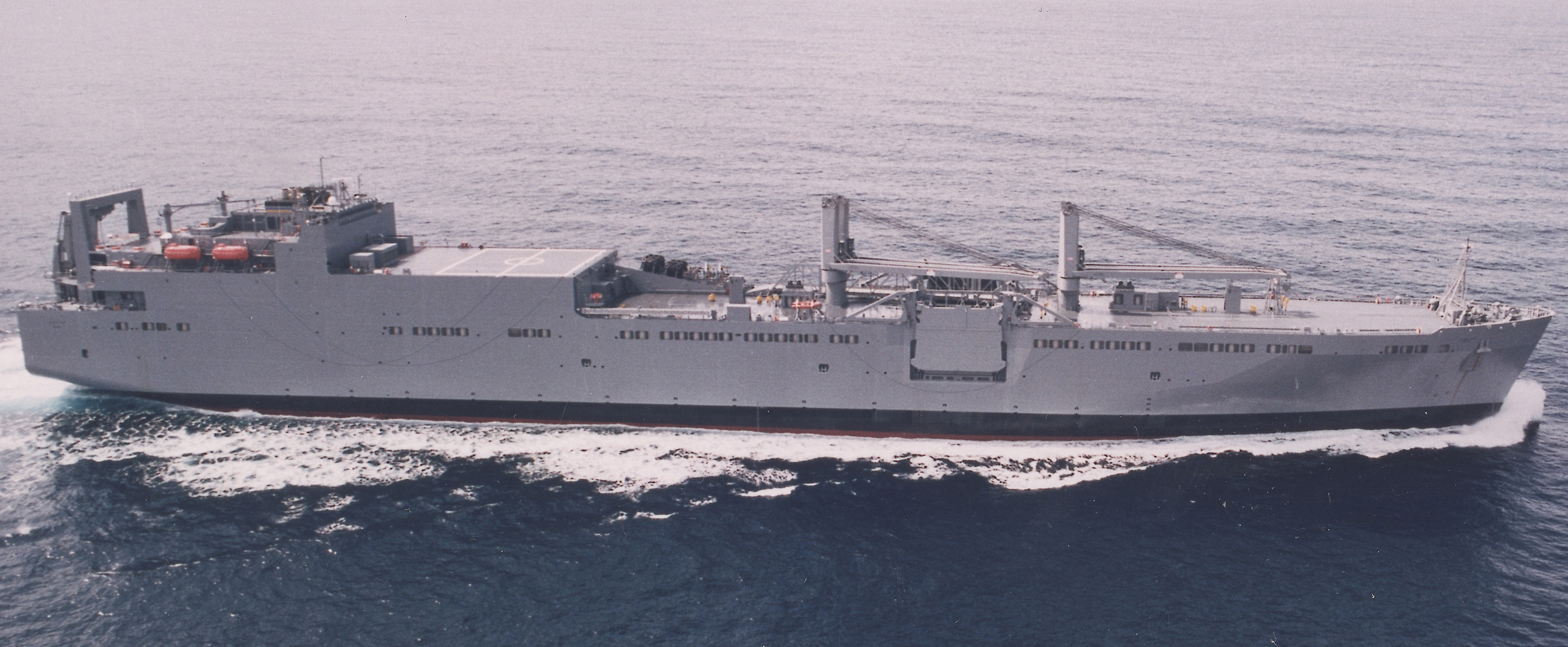 USNS Dahl (T-AKR-312)